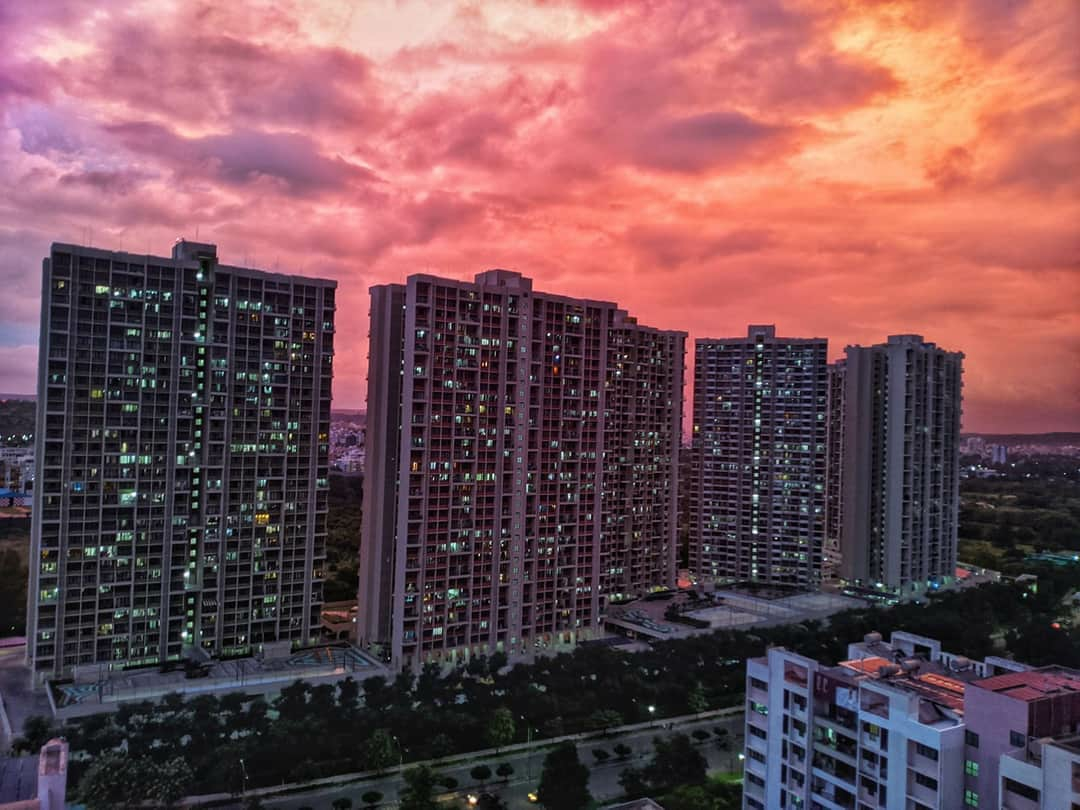 Sargam Nanded City at evening